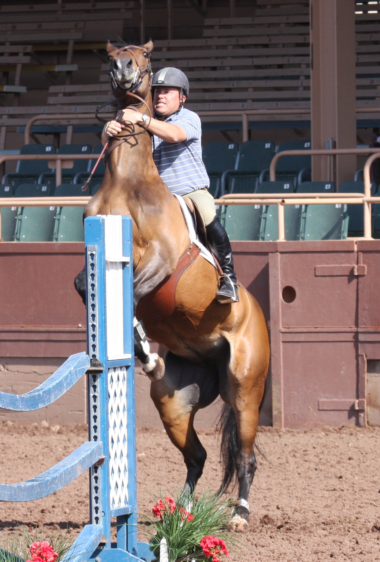 Dealing with a rearing jumper